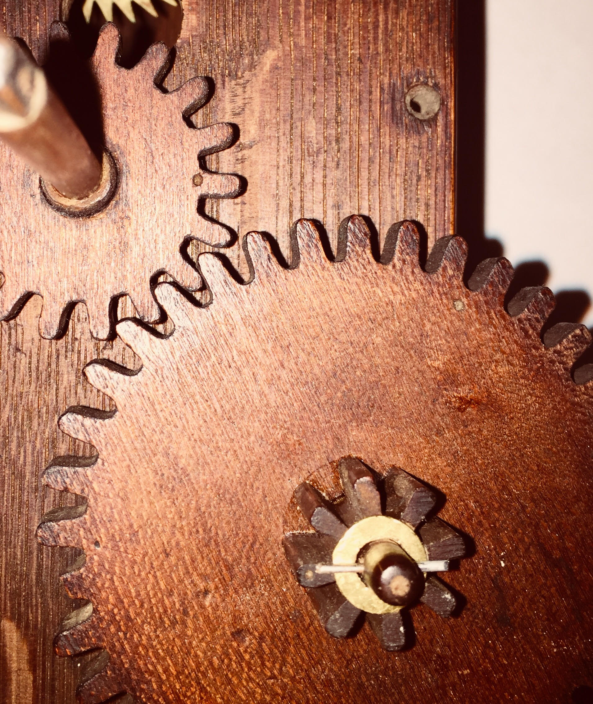 Clock gears from a Terry type tall case movement, ca. 1800-1810, showing the use of circular, milled teeth.